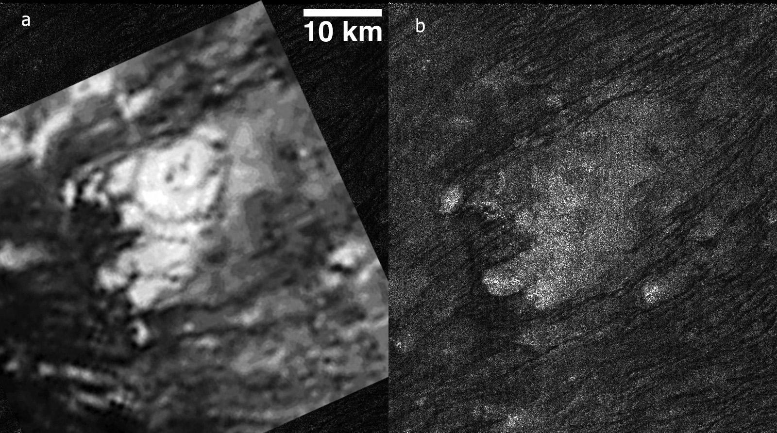 Original description: These side-by-side images obtained by NASA's Cassini spacecraft show the feature named Tortola Facula on Saturn's moon Titan. The left image was obtained by the visual and infrared mapping spectrometer data on Oct. 26, 2004, at a resolution of 2 kilometers (1 mile) per pixel This mosaic focuses on an area around 9 degrees north latitude and 145 degrees west longitude. In 2005, scientists interpreted Tortola Facula as an ice volcano. The right image shows the same feature, as seen by Cassini's radar instrument on May 12, 2008, at a much higher resolution of 300 meters per pixel. Scientists now think that this feature is a nondescript obstacle surrounded by obvious wind-blown sand dunes, similar to those commonly found in this region of Titan. In radar images, objects appear bright when they are tilted toward the spacecraft or have rough surfaces.